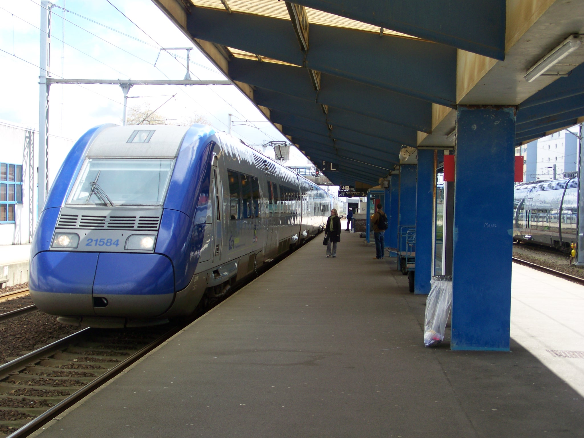 French regional train bound for Quimper is stopping at Lorient station, in Morbihan, Brittany.